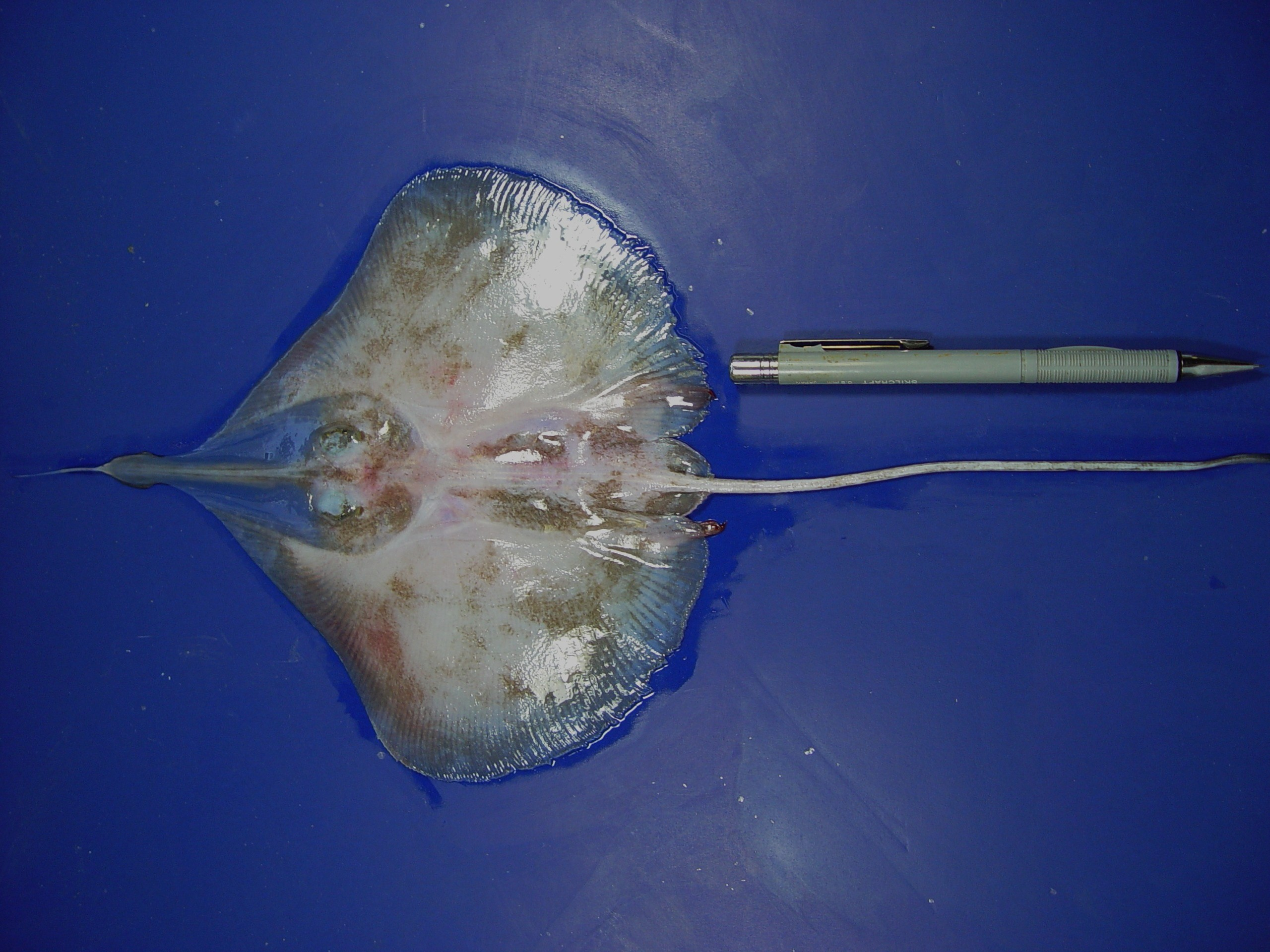 Leaf-nose leg skate ( Anacanthobatis folirostris ) . Gulf of Mexico